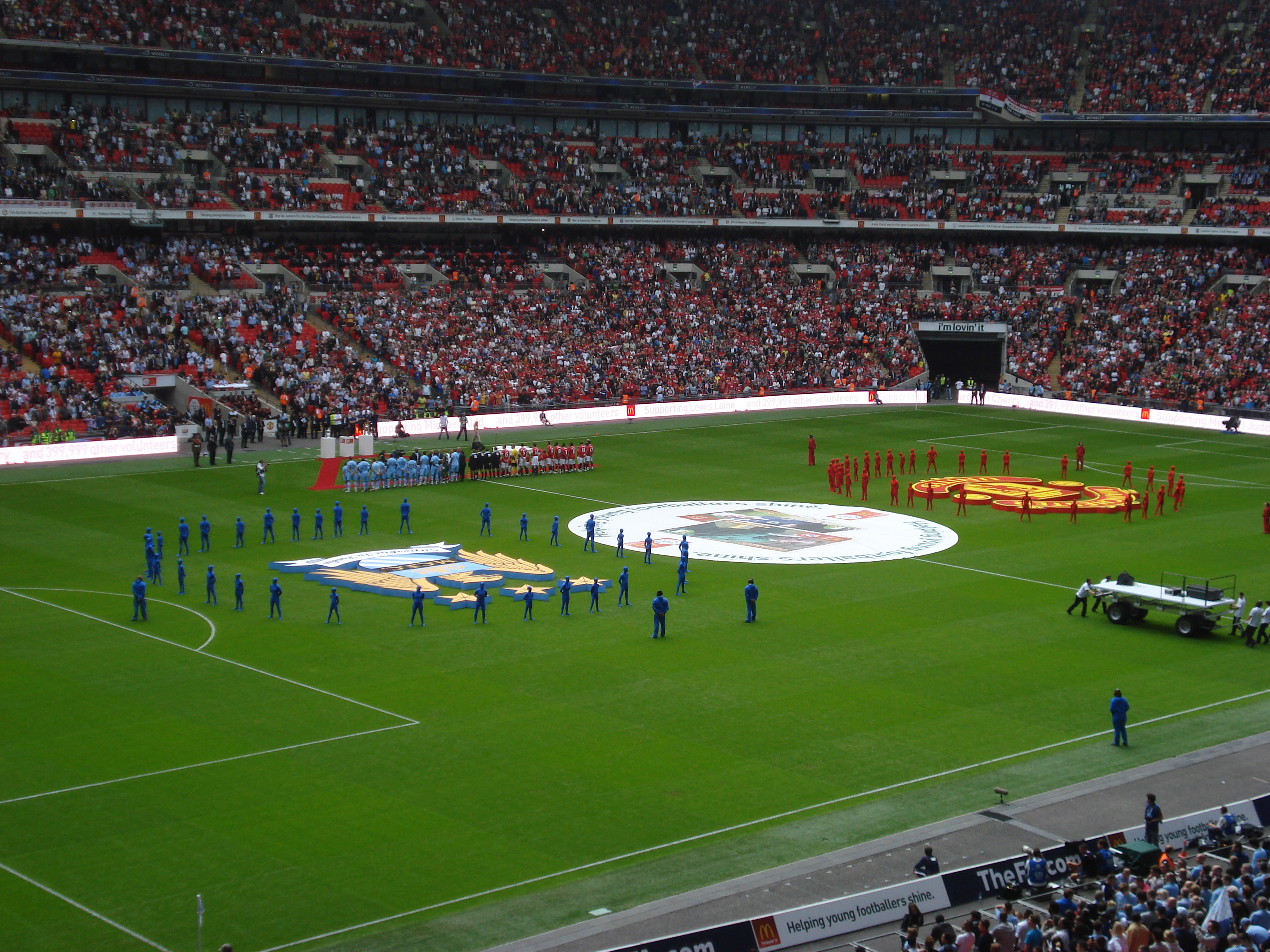 Photo of teams lining up at the FA Community Shield 2011